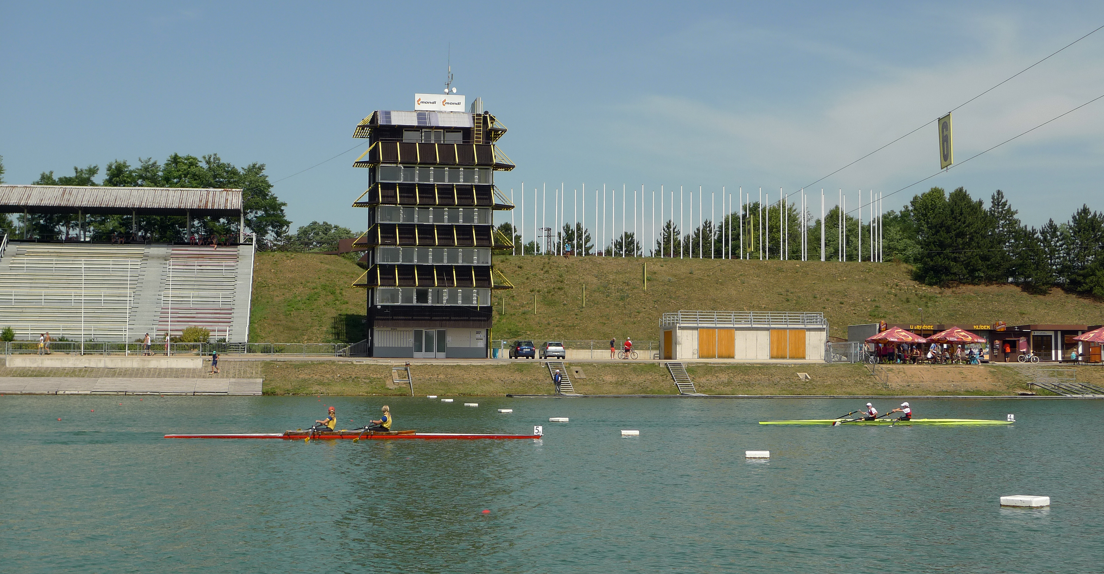 Rowing Canal Račice, Czech Republic